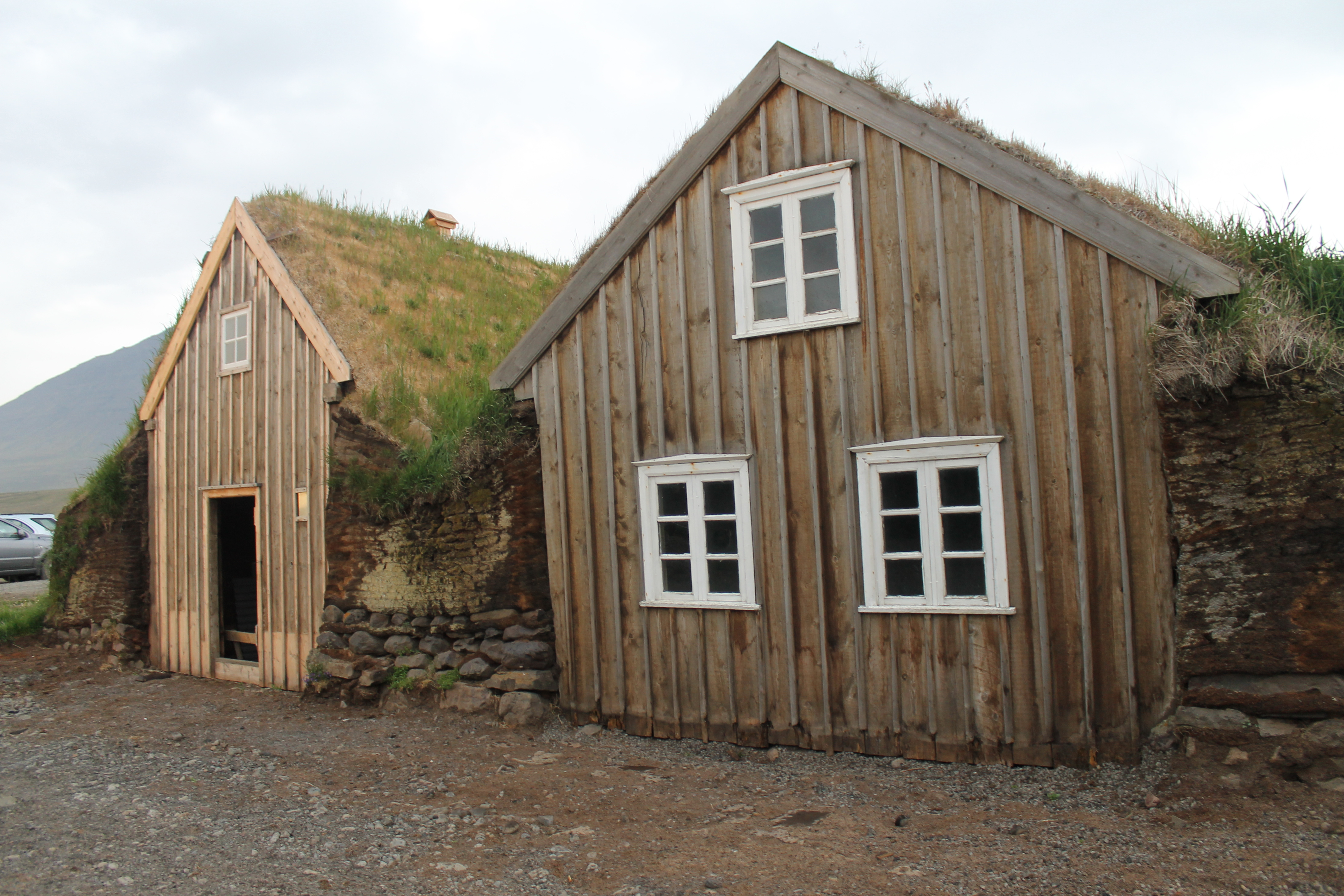 Old (18th century) turf farmhouse at Stóru-Akrar, Skagafjörður, Iceland.